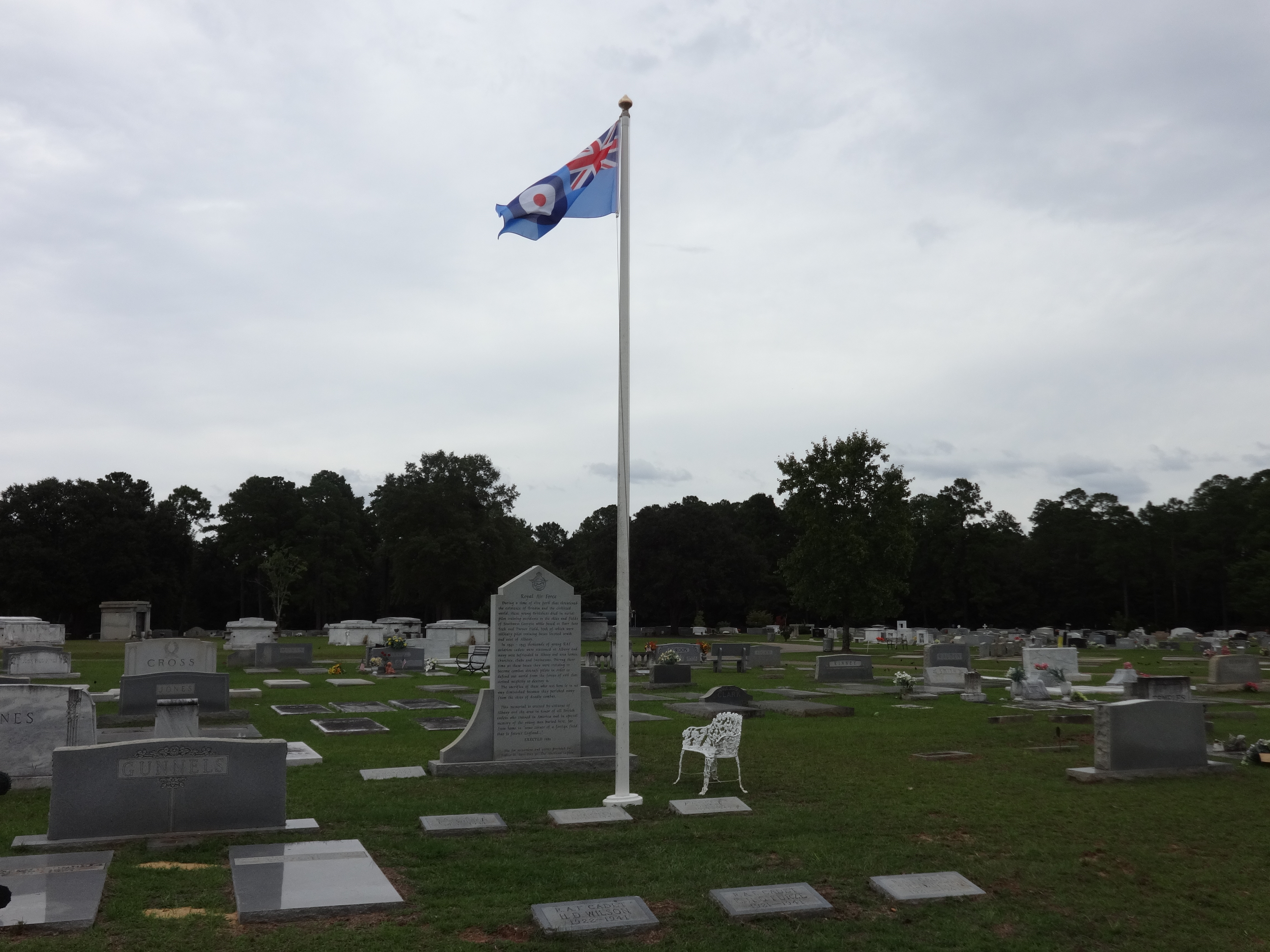 Crown Hill Cemetery, Albany, Dougherty County, Georgia